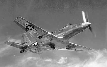 Fisher P-75A in flight